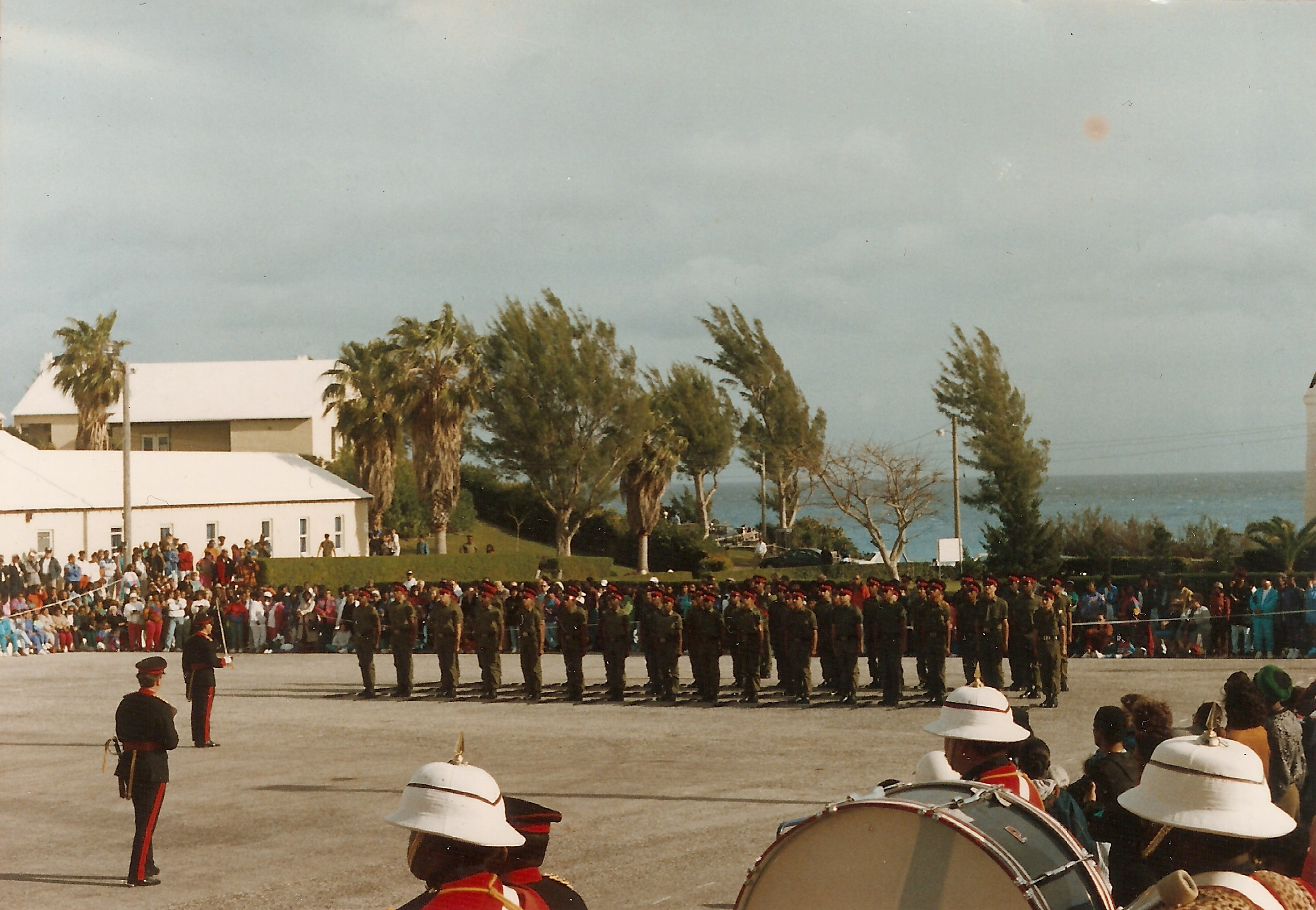 A platoon of the Training Company of the Bermuda Regiment, at Warwick Camp, during Recruit Camp 1993. Aodhdubh 17:13, 13 November 2006 (UTC)